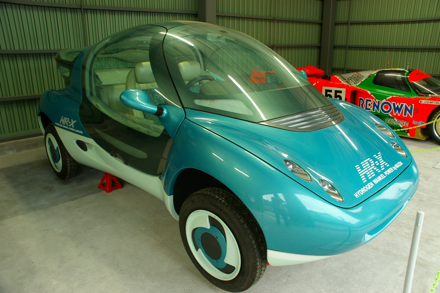 Mazda HR-X in Otaru synthesis museum.